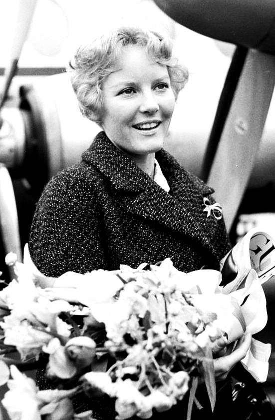 Petula arrives in Holland, 1960